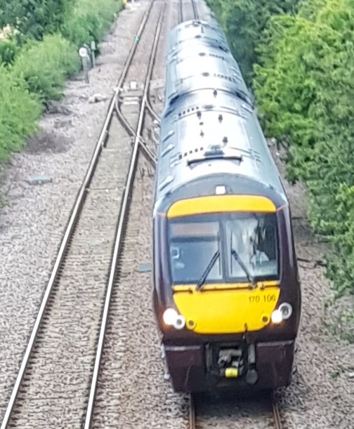 The 8:10 class 170 DMU, empty coaching stock heading west towards Tyseley from Nottingham at he site of the old Castle Donington station. Picture taken from Station Road bridge